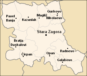 Croatian names on map of Stara Zagora District (Bulgaria)